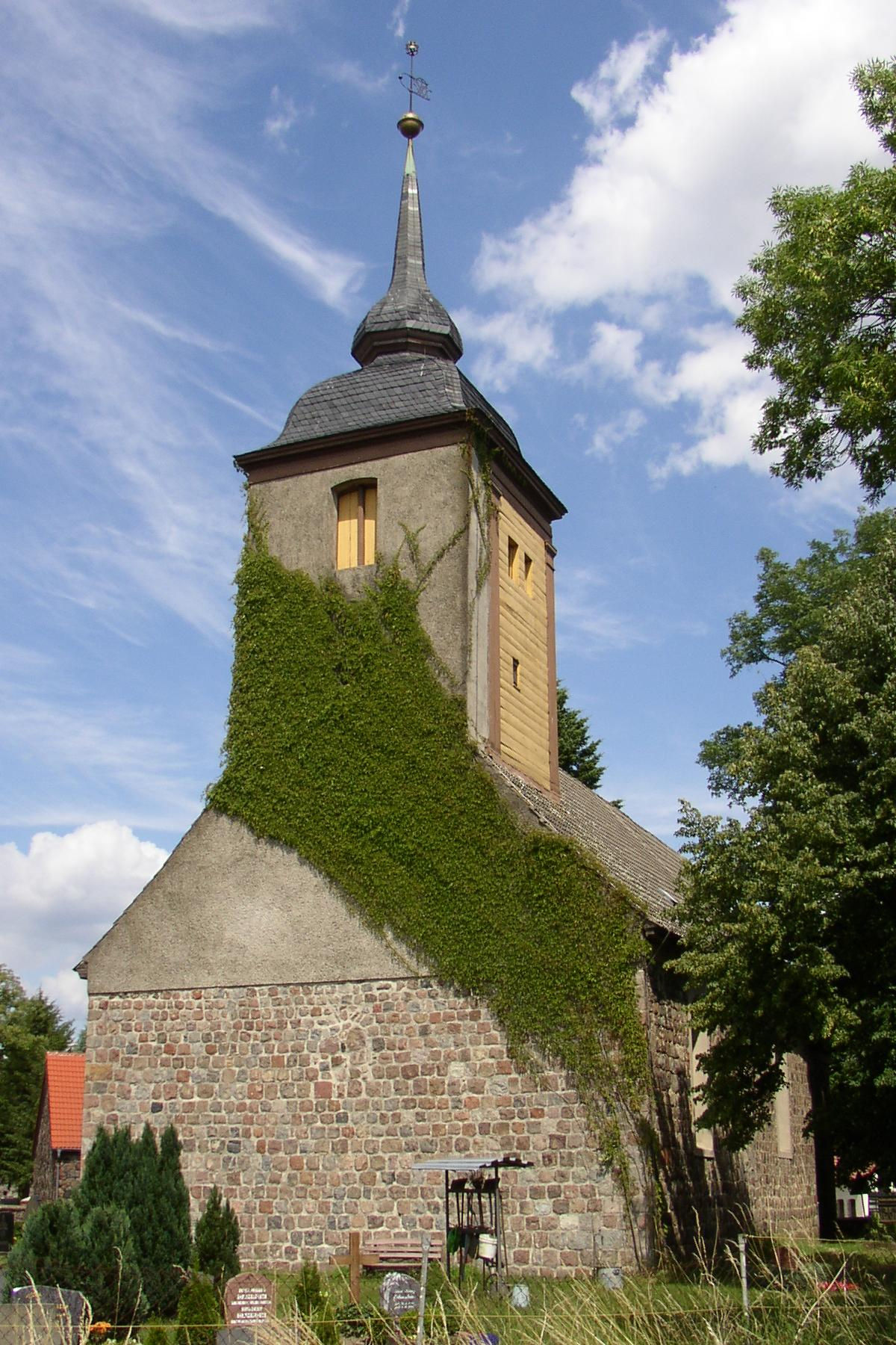 Church in Rüdnitz in Brandenburg, Germany